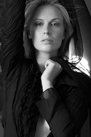 A photo of CariDee English, from her Elite Model Management portfolio.